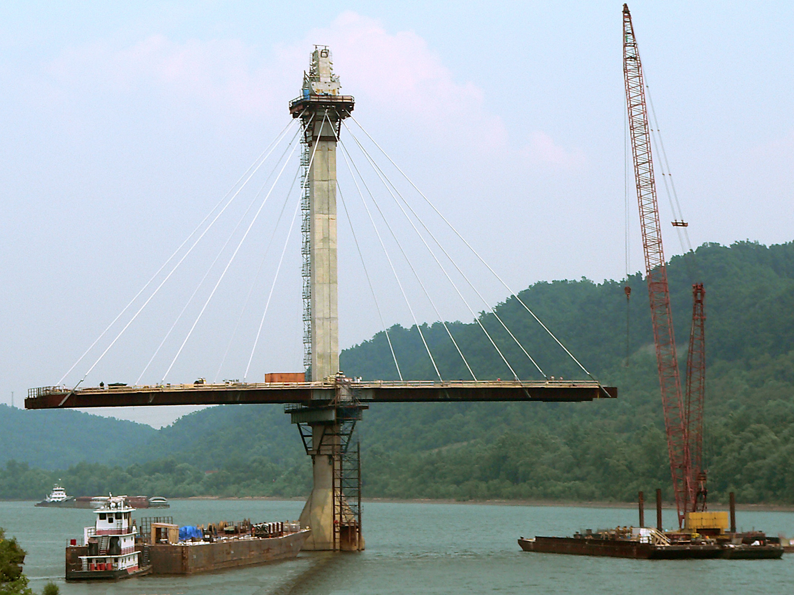 U.S. Grant bridge under construction. Taken 6/21/2005 by Greg Hume. Greg5030 04:50, 27 February 2007 (UTC)